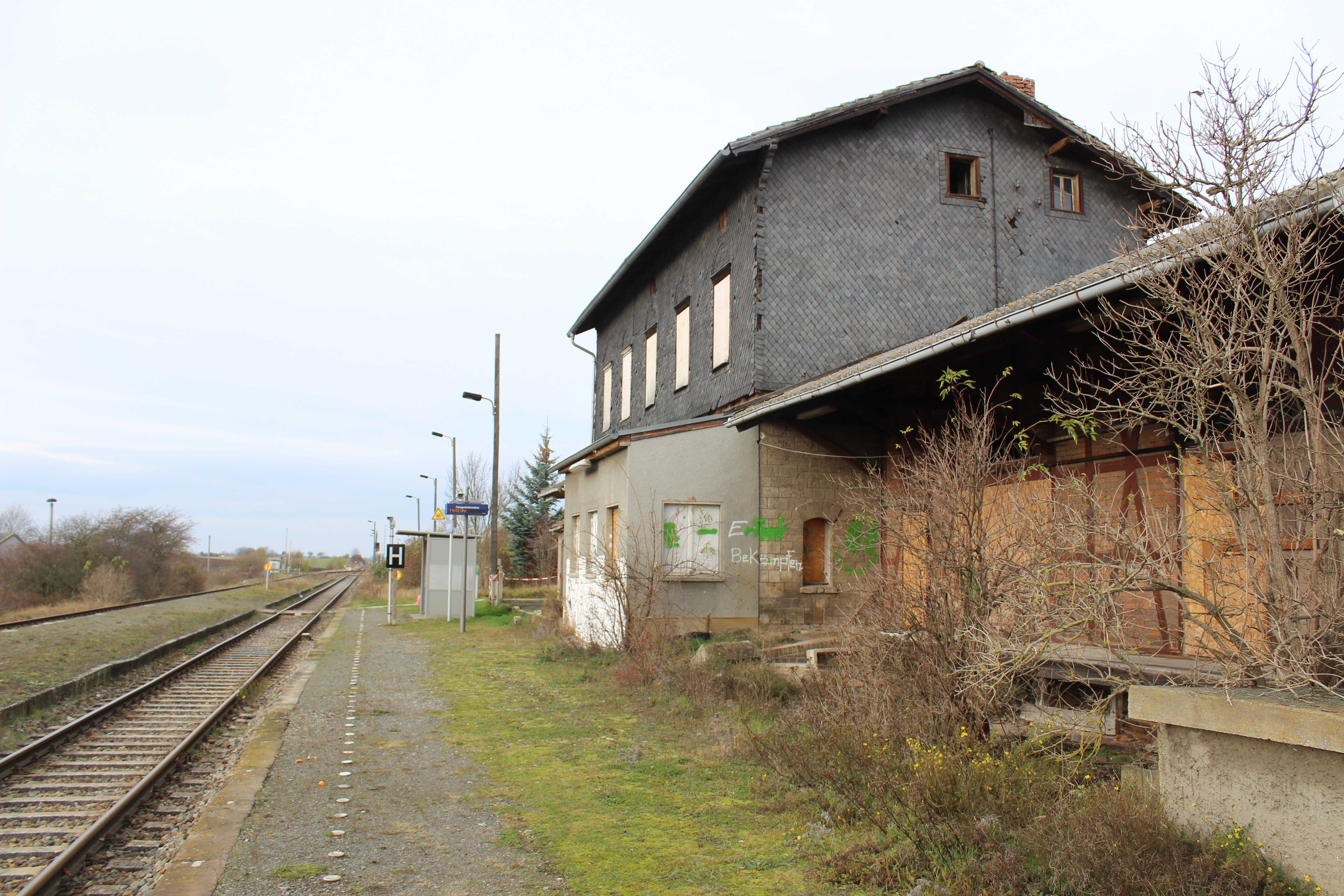 train station Eckartsberga, platforms